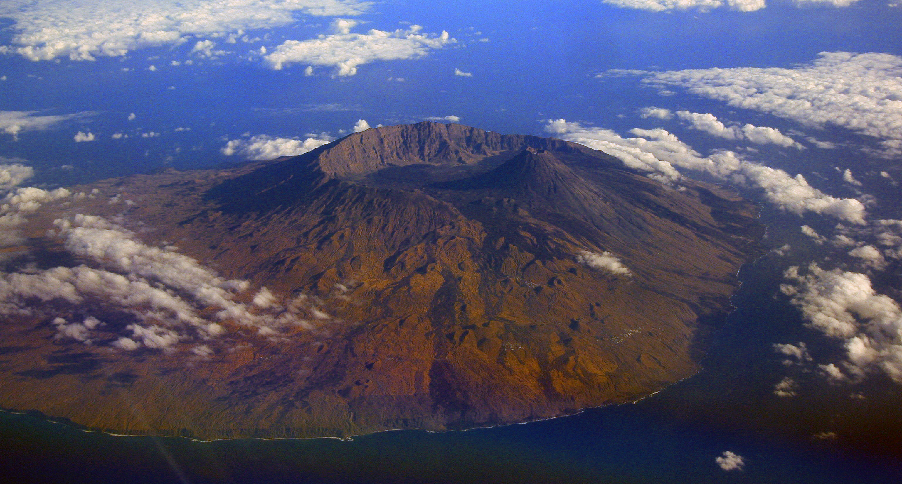 Fogo island aerial shot taken from an Airbus cockpit